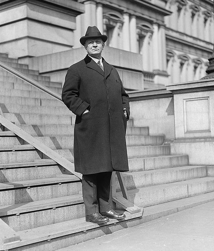 Edwin Denby.